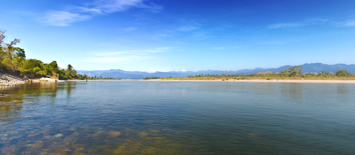 Nameri National Park is a national park located in the foothills of the Eastern Himalayas in the Sonitpur District of Assam, India, about 35 kilometres from Tezpur